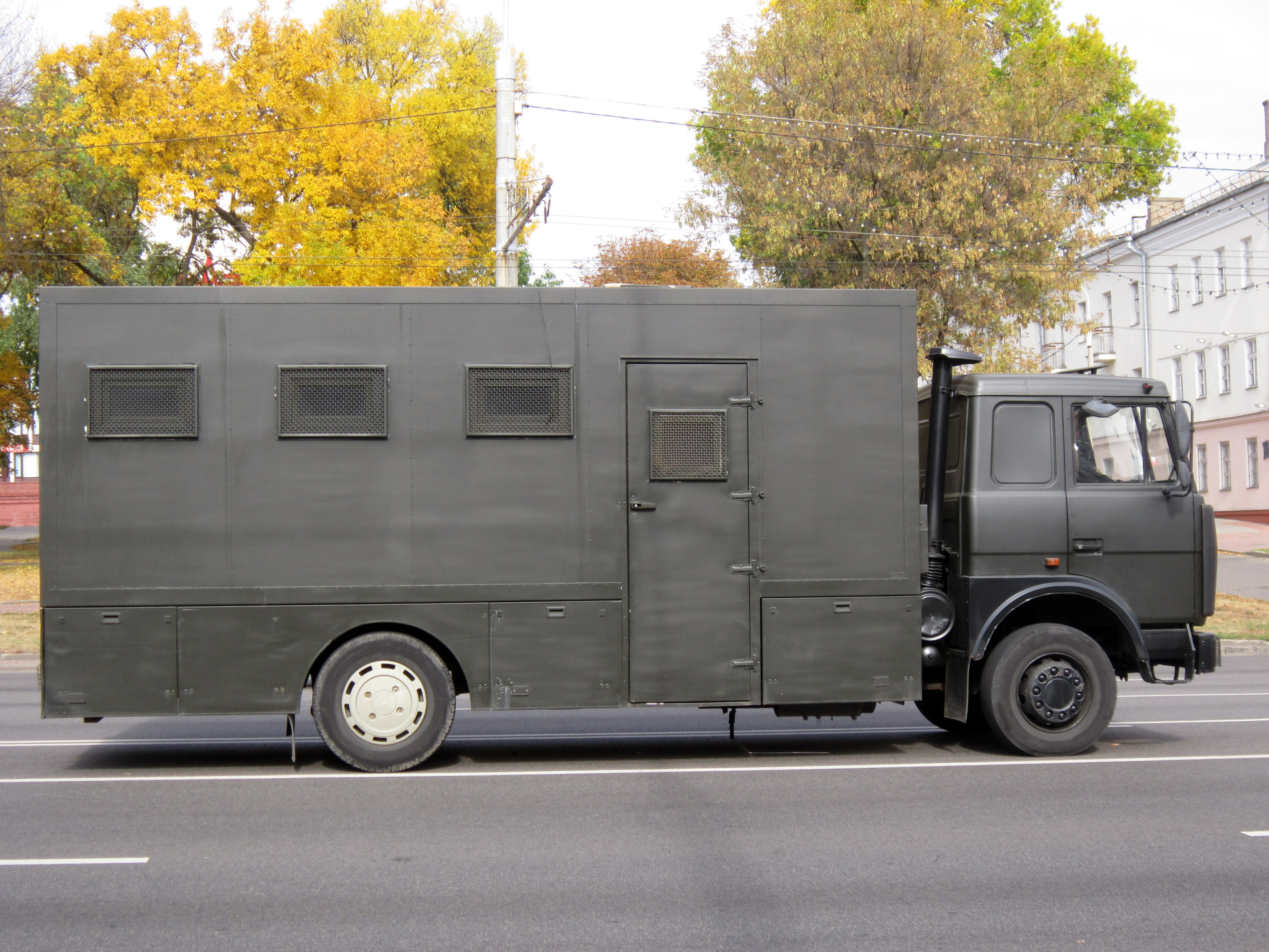 Belarusian paddy wagon (aŭtazak in Belarusian, avtozak in Russian) on MAZ chassis